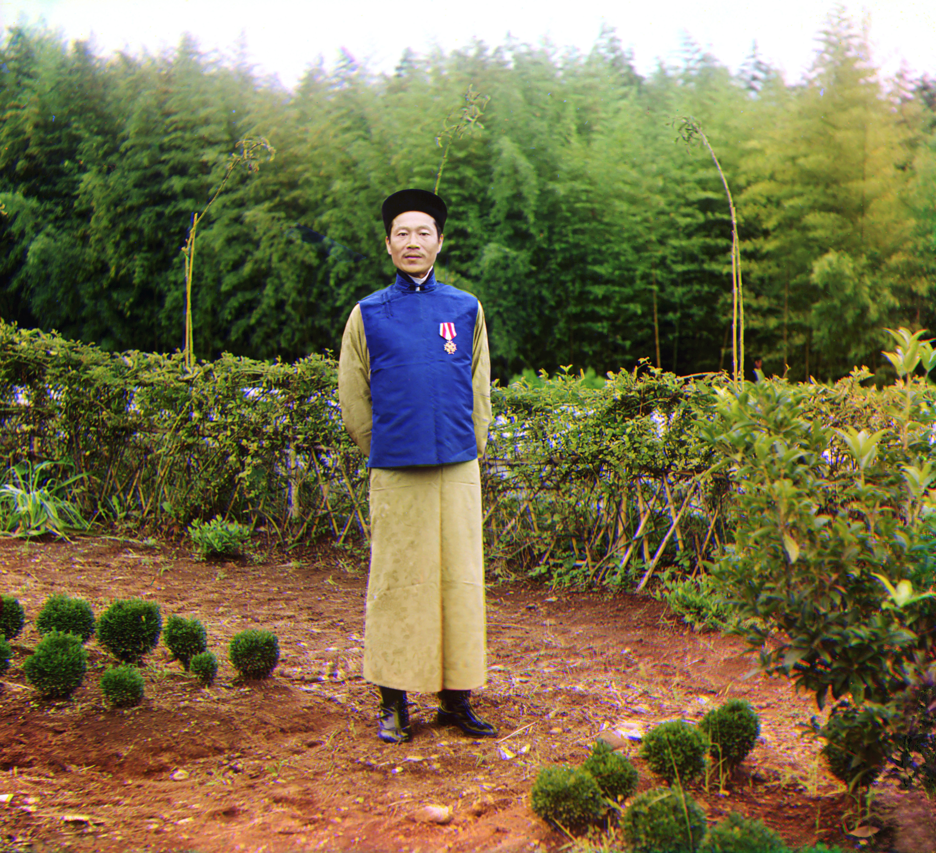 Original Description: Tea factory in Chakva. Chinese foreman Lau-Dzhen-Dzhau.